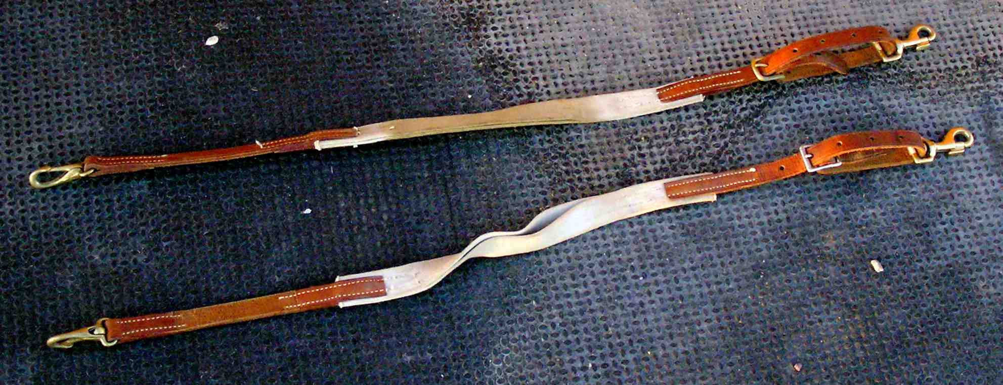 A set of well-worn (OK, ratty-looking!) side reins with elastic, used for training horses to accept a bit.